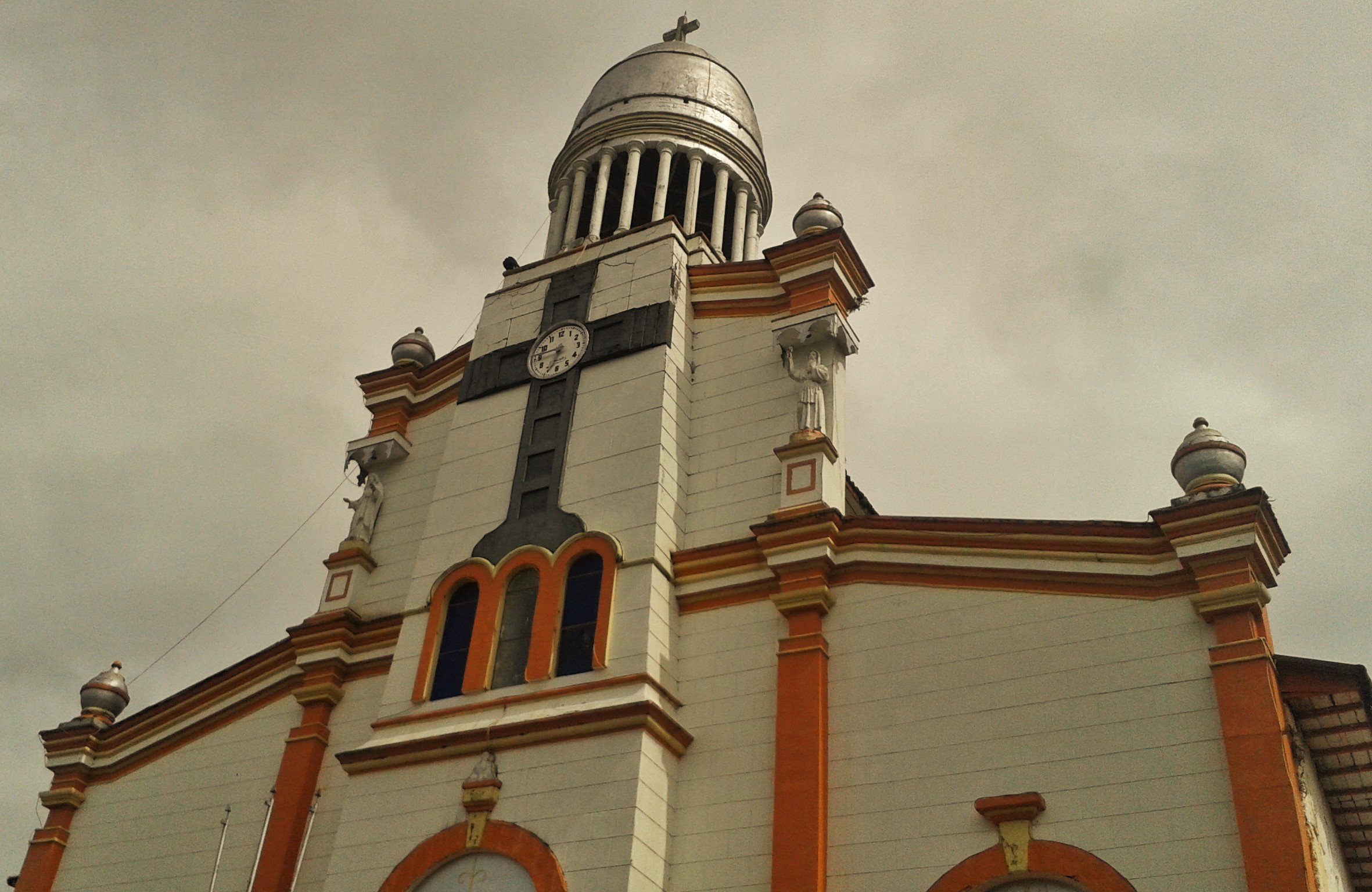 Templo de Aragón, Santa Rosa de Osos